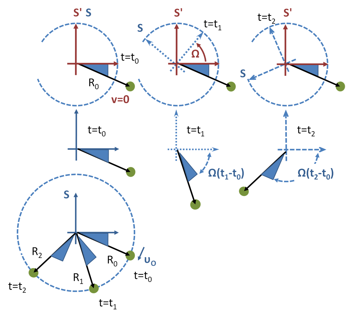 Stationary object as seen in a rotating frame